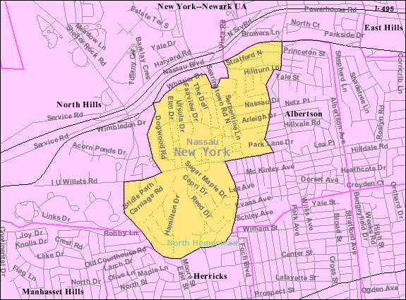 U.S. Census 2000 reference map for Searingtown, New York